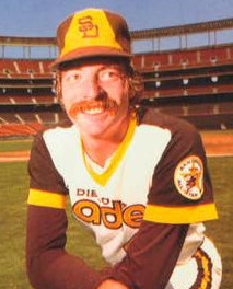 Professional baseball player Eric Rasmussen